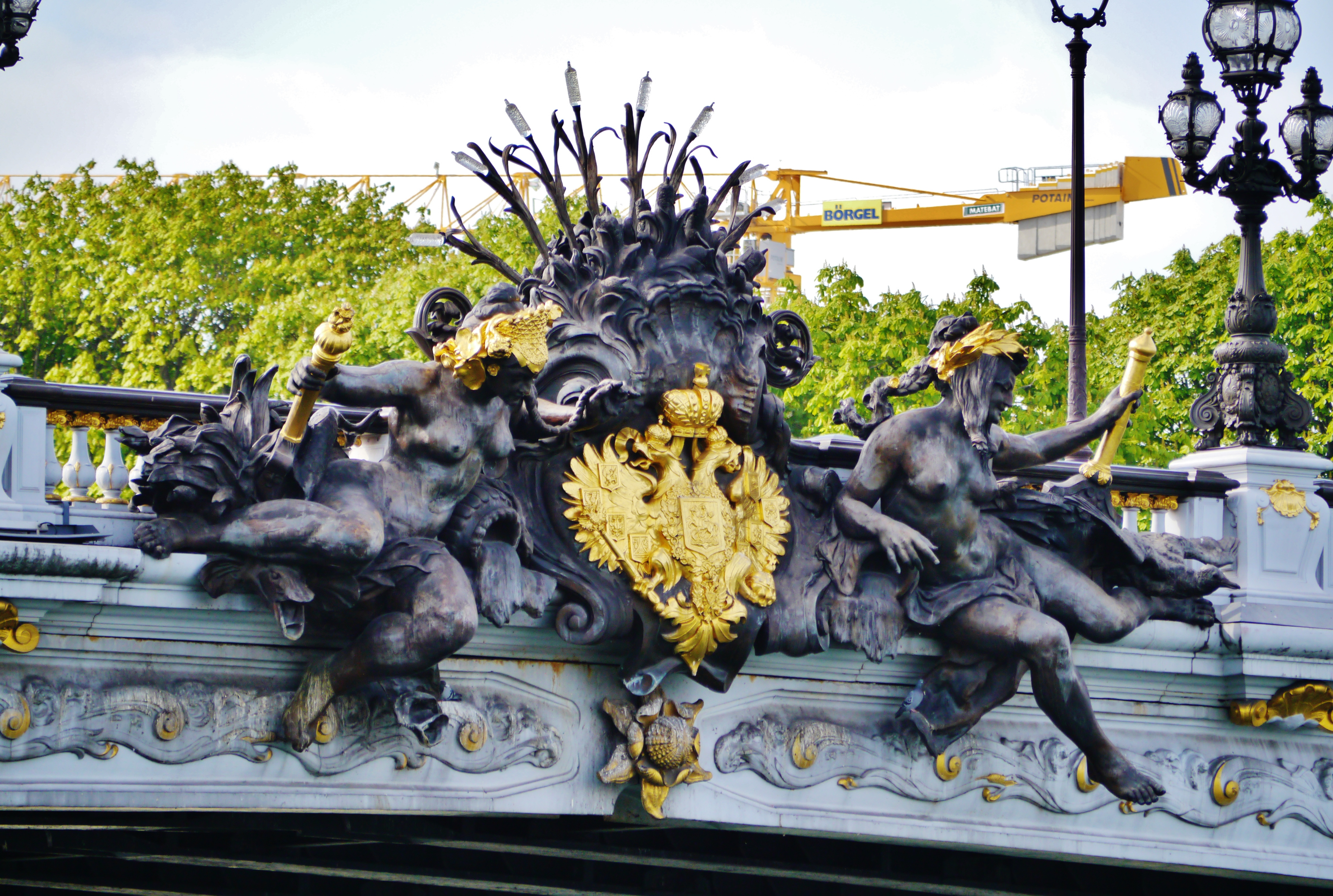 Nymphs of the Neva at the Alexander III Bridge, Paris, Region of Île-de-France, France